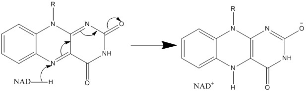 Gain of H- and formation of O